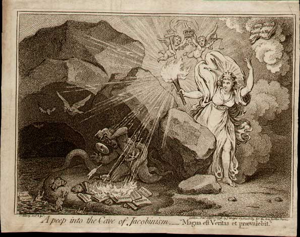 James Gillray, "A Peep Into the Cave of Jacobinism." Published Sept. 1, 1798, by J. Wright, 169 Piccadilly, for the Anti-Jacobin Review. "Truth" is pictured shining her light on "Jacobinism", a monstrous creature.